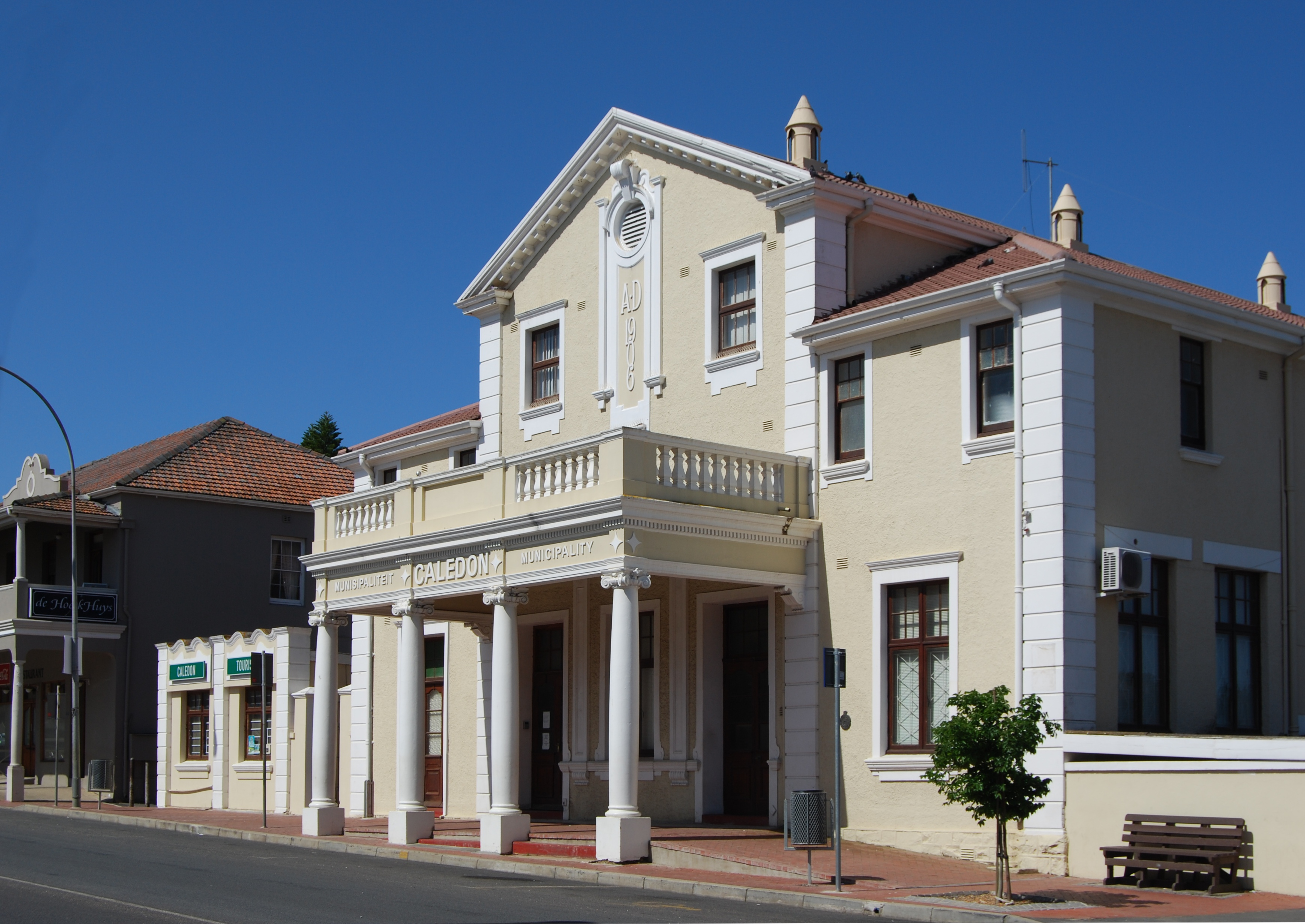 Town hall in Caledon, Western Cape This media shows a South African Protected Site with SAHRA file reference 9/2/015/0038.